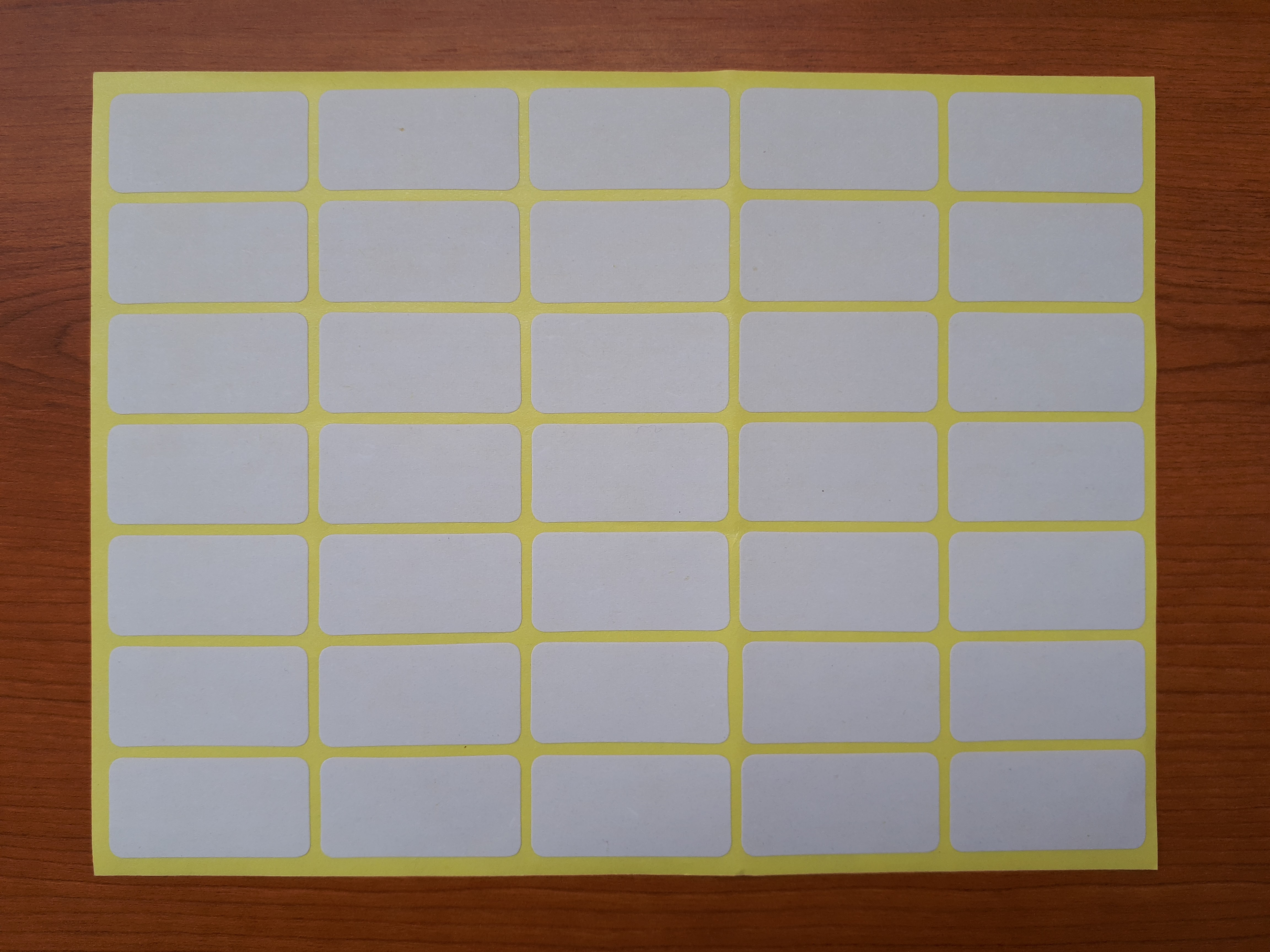 A sheet of 35 adhesive labels - 38 x 19 mm each